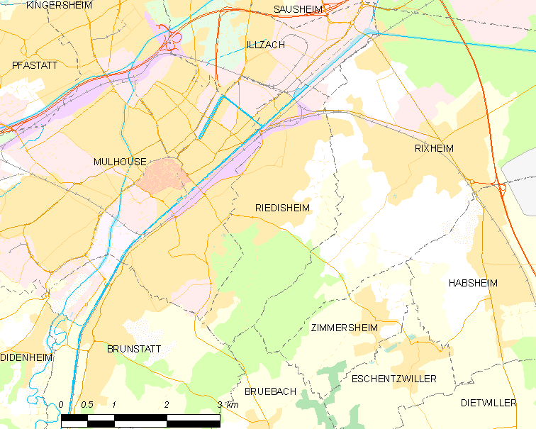 Map of French municipality